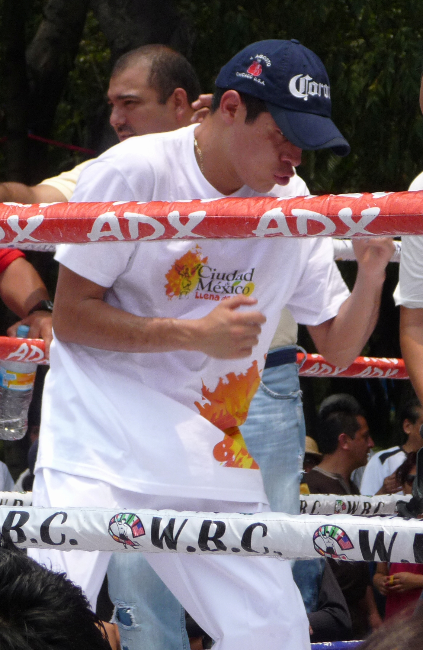 Mexican boxer Edgar Sosa